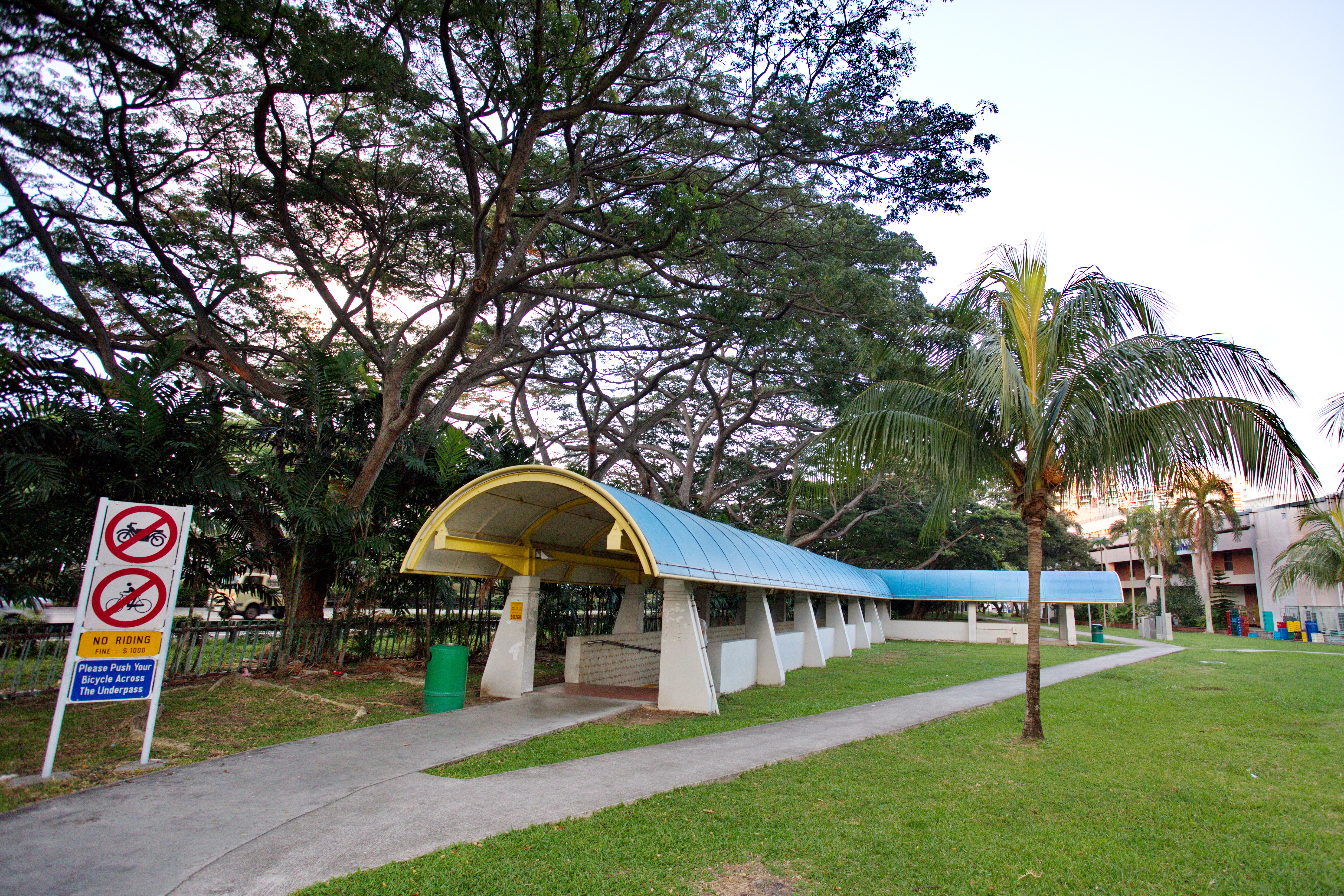 Underpass linked Marine Parade to East Coast Park